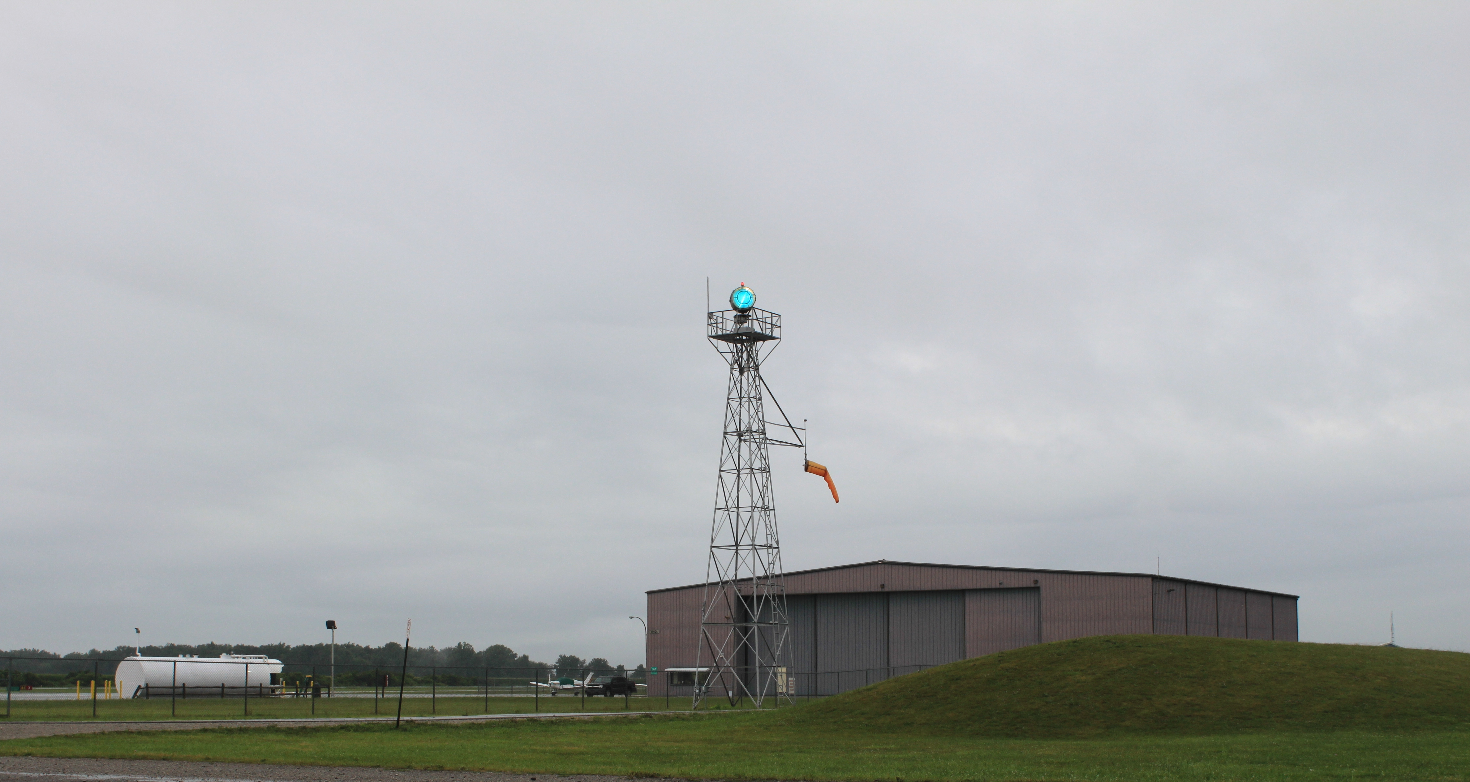 Custer Airport, Monroe, Michigan, light beacon, hangar and tarmac